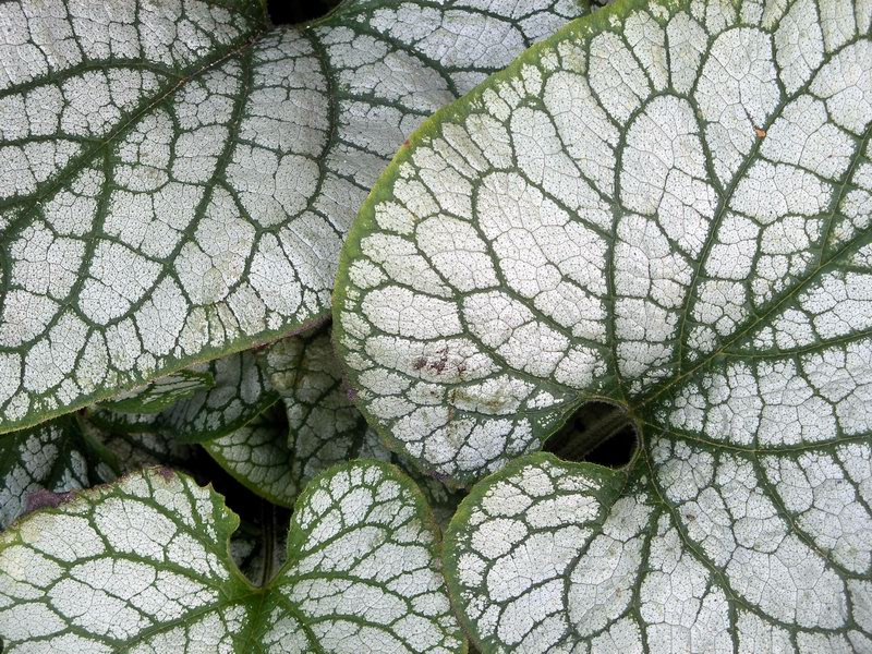 Fractal pattern leaves